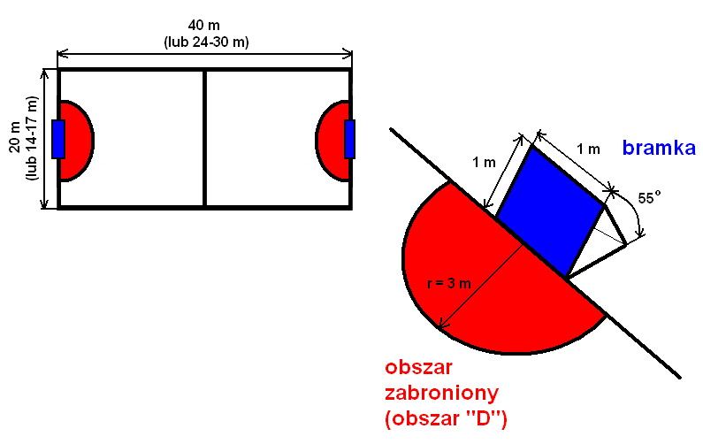 Tchoukball field and frame, Polish writings